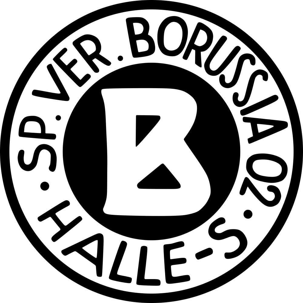 Logo of former german football club Borussia Halle (1902-1945)